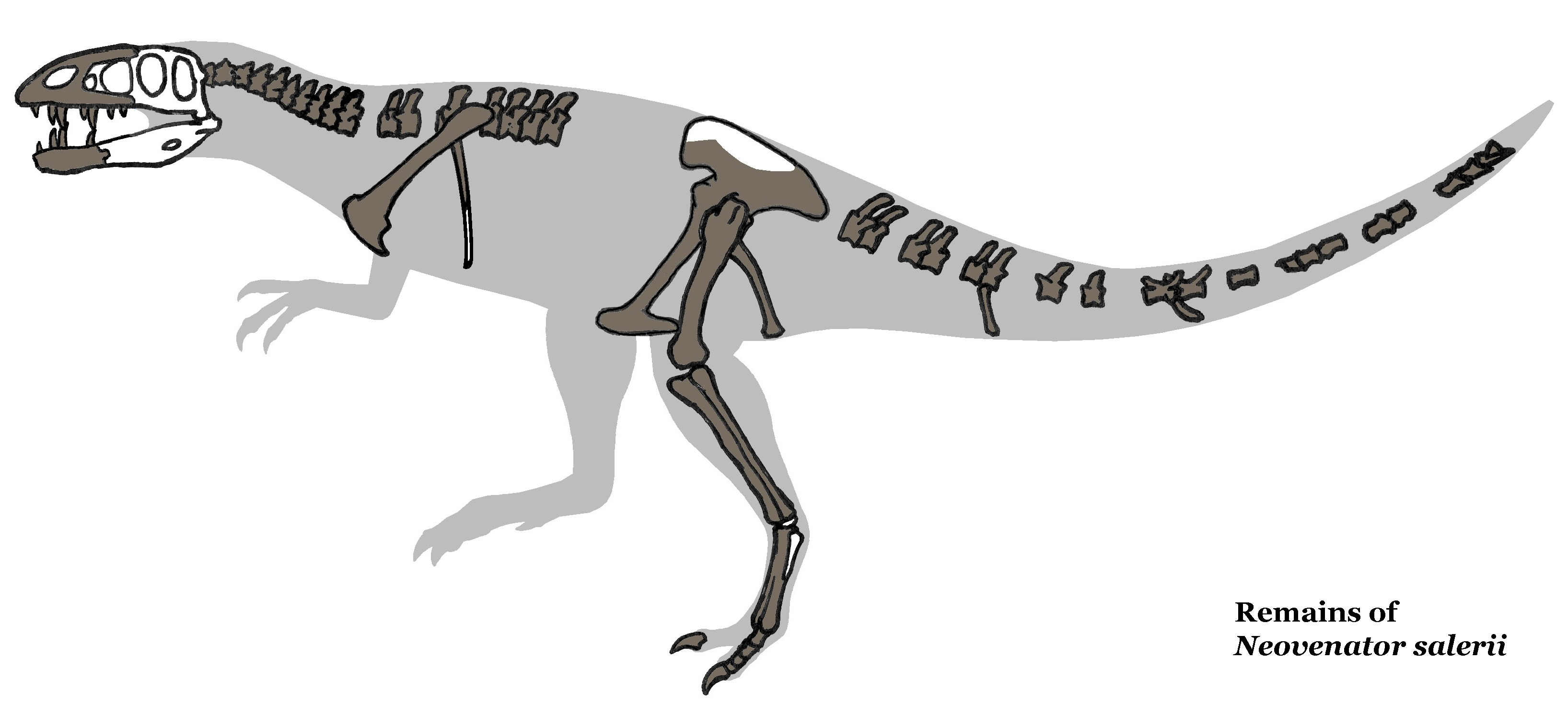 Illustration showing the known pieces of Neovenator salerii, a theropod dinosaur from Isle of Wight, Great Britain. References. Skull pieces. Mounted skeletal replica. Known pieces. Description of 2 vertebrates. Description of some known pieces, Dinodata. Vertebrates of Neovenator. See also. Neovenator at Scienceblogs.